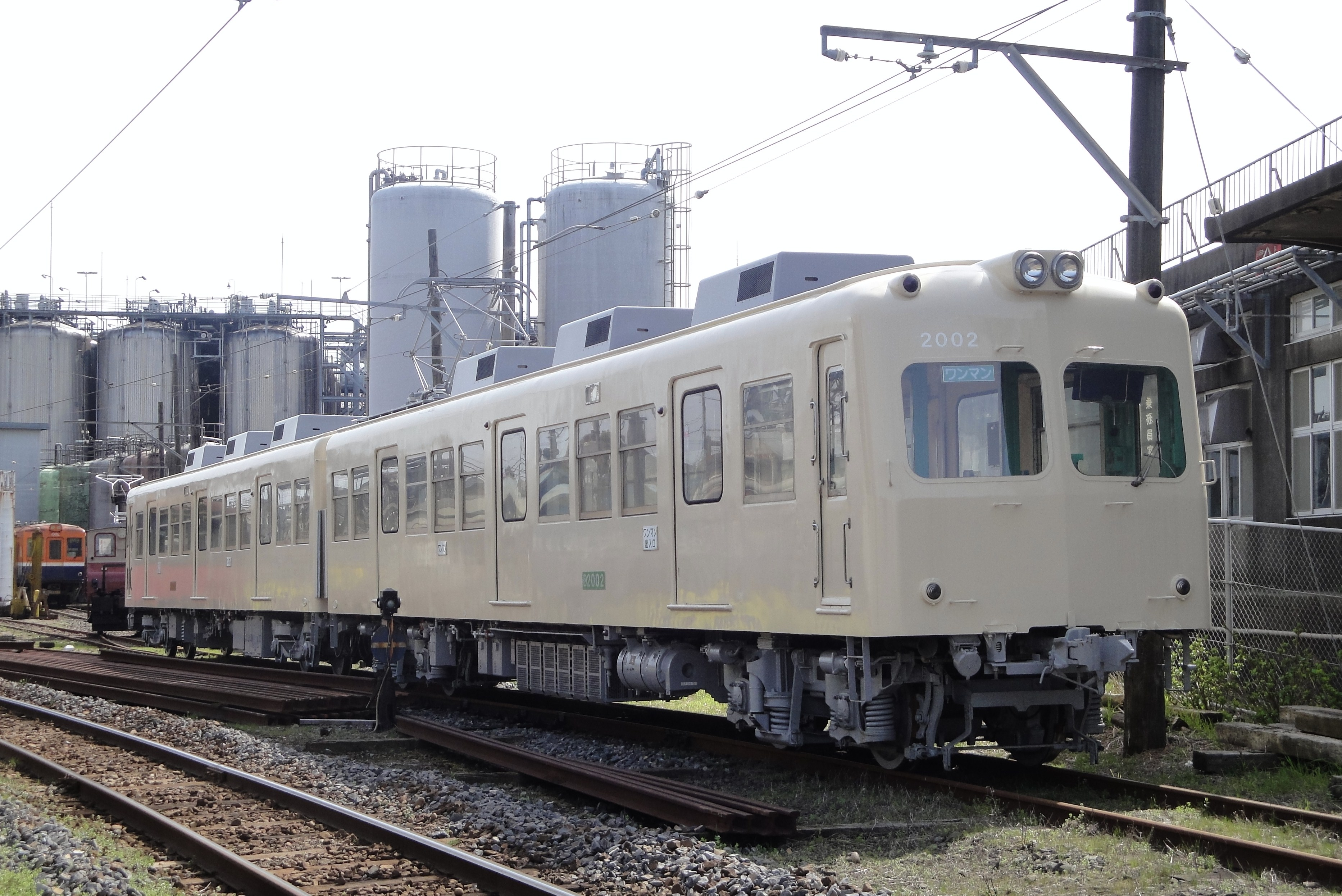 Choshi Electric Railway 2000 series set No 2002 undergoing conversion and repainting at Nakanochō depot following delivery from the Iyo Railway